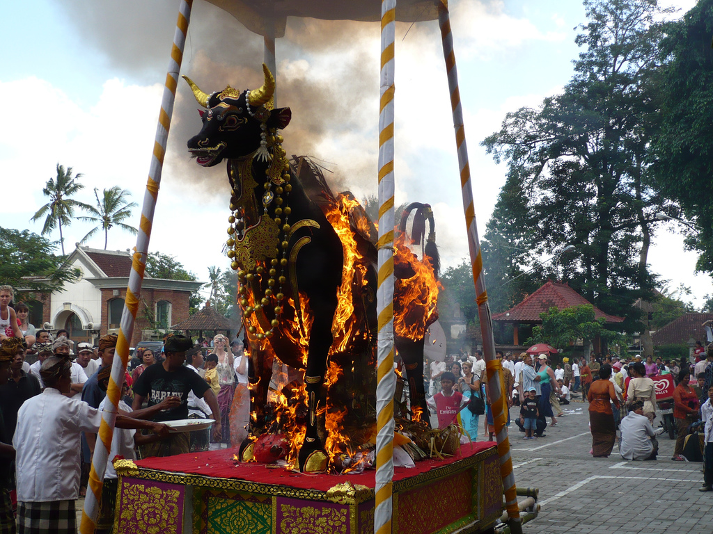 Balinese funeral